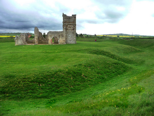 Remains of Knowlton church and henge